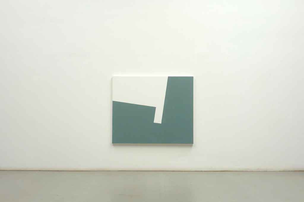 Taranto 2014, acrílico sobre lienzo,100x120cm.